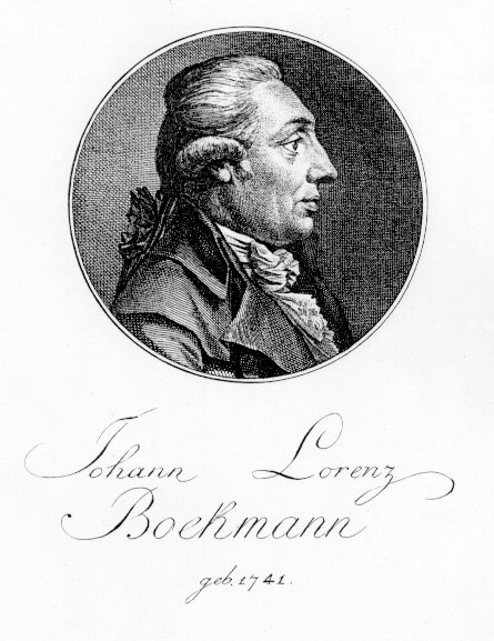 Johann Lorenz Böckmann